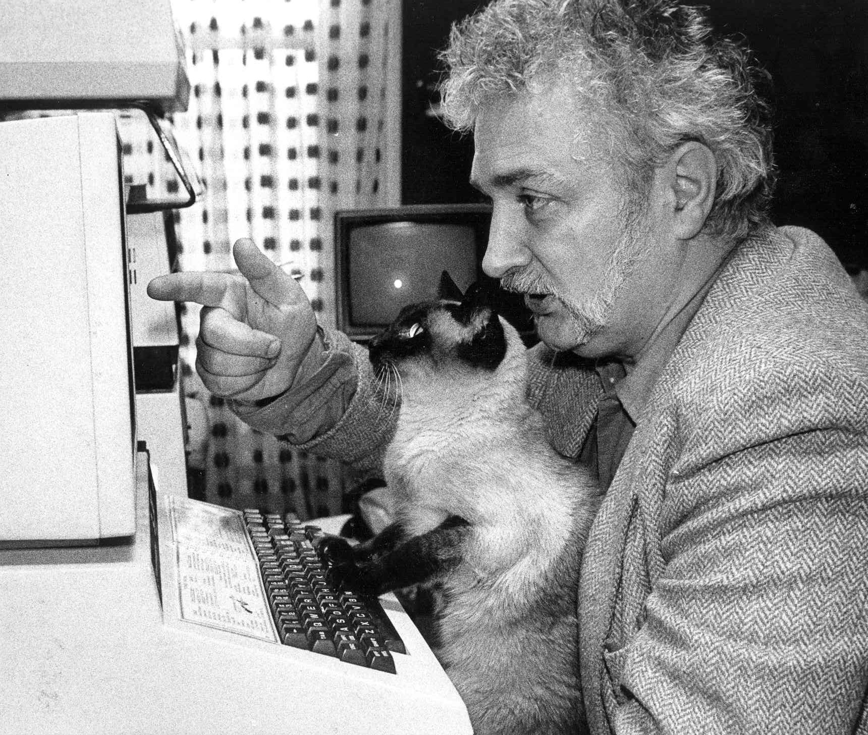 Jim Butterfield